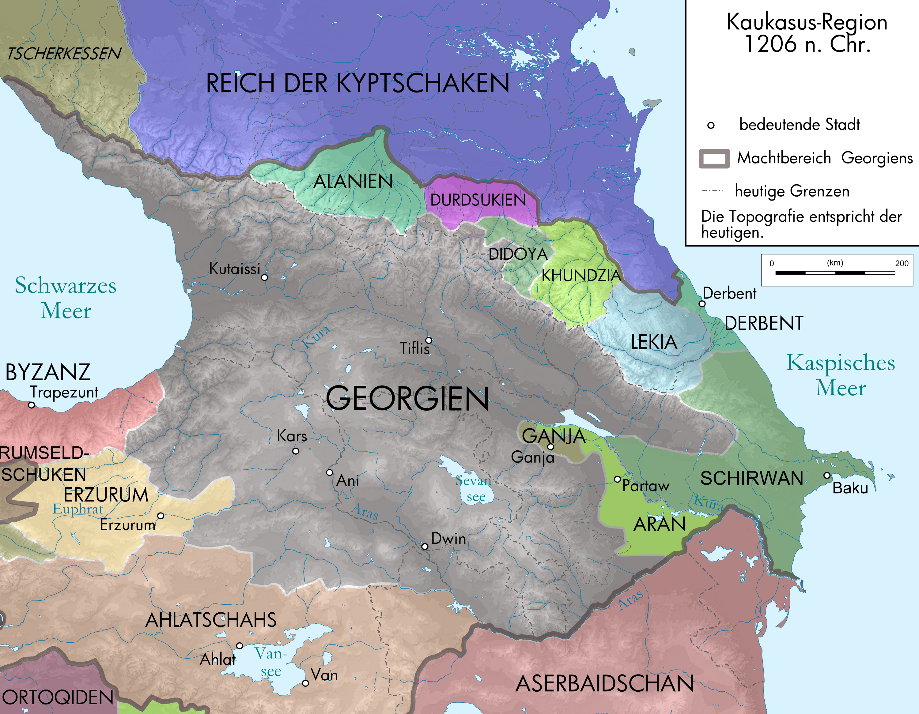 Map of Caucasus Region around 1206 AC in German.